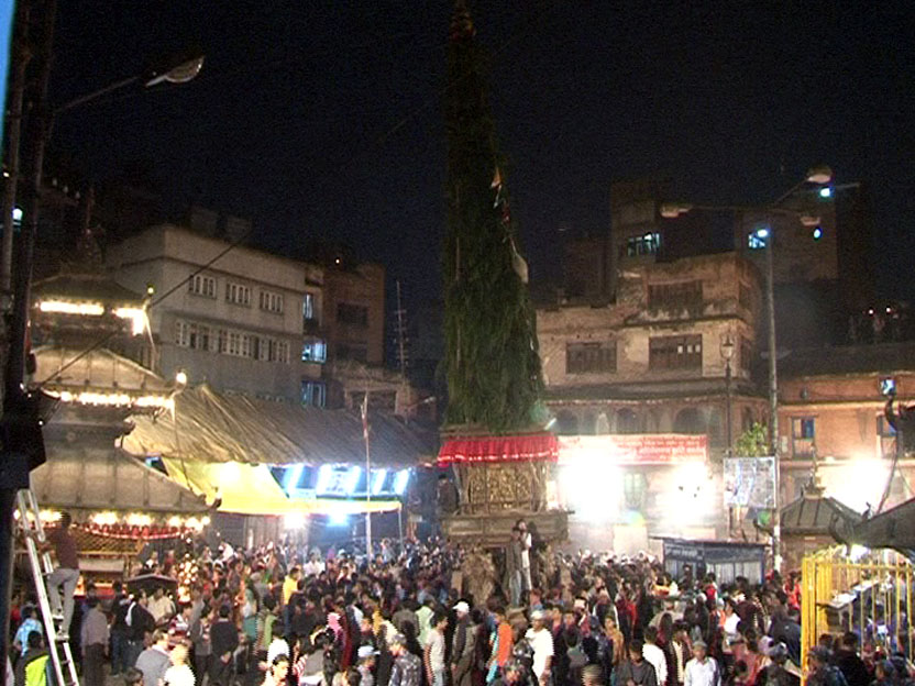 Cart of seto Machchhindra naath.